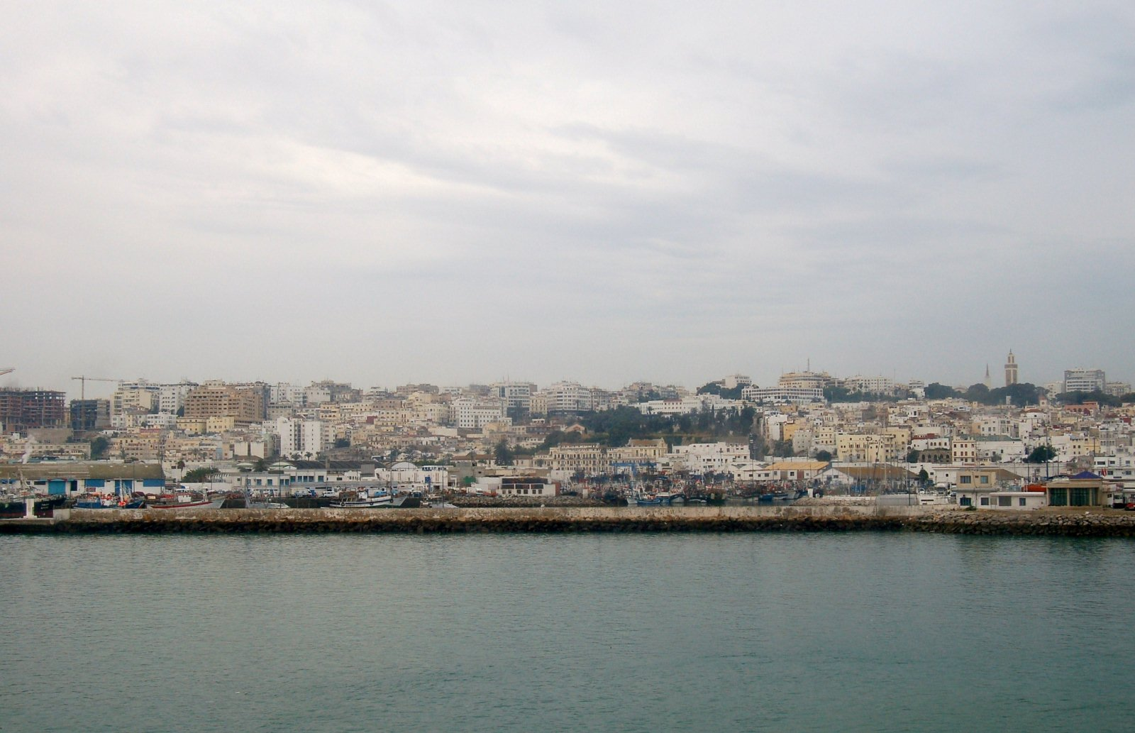 Tangier, Morocco